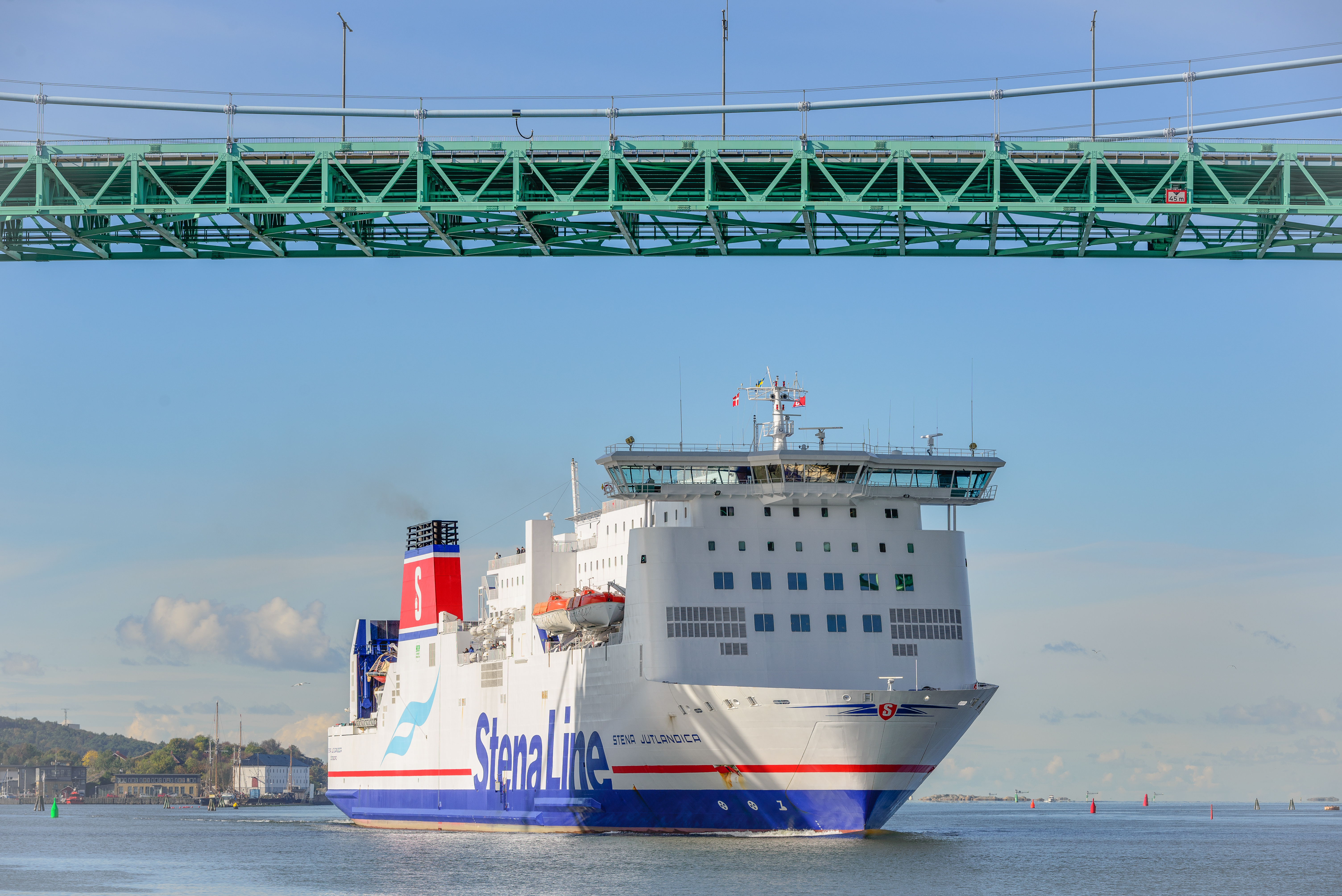 Stena Jutlandica arrives at Gothenburg.